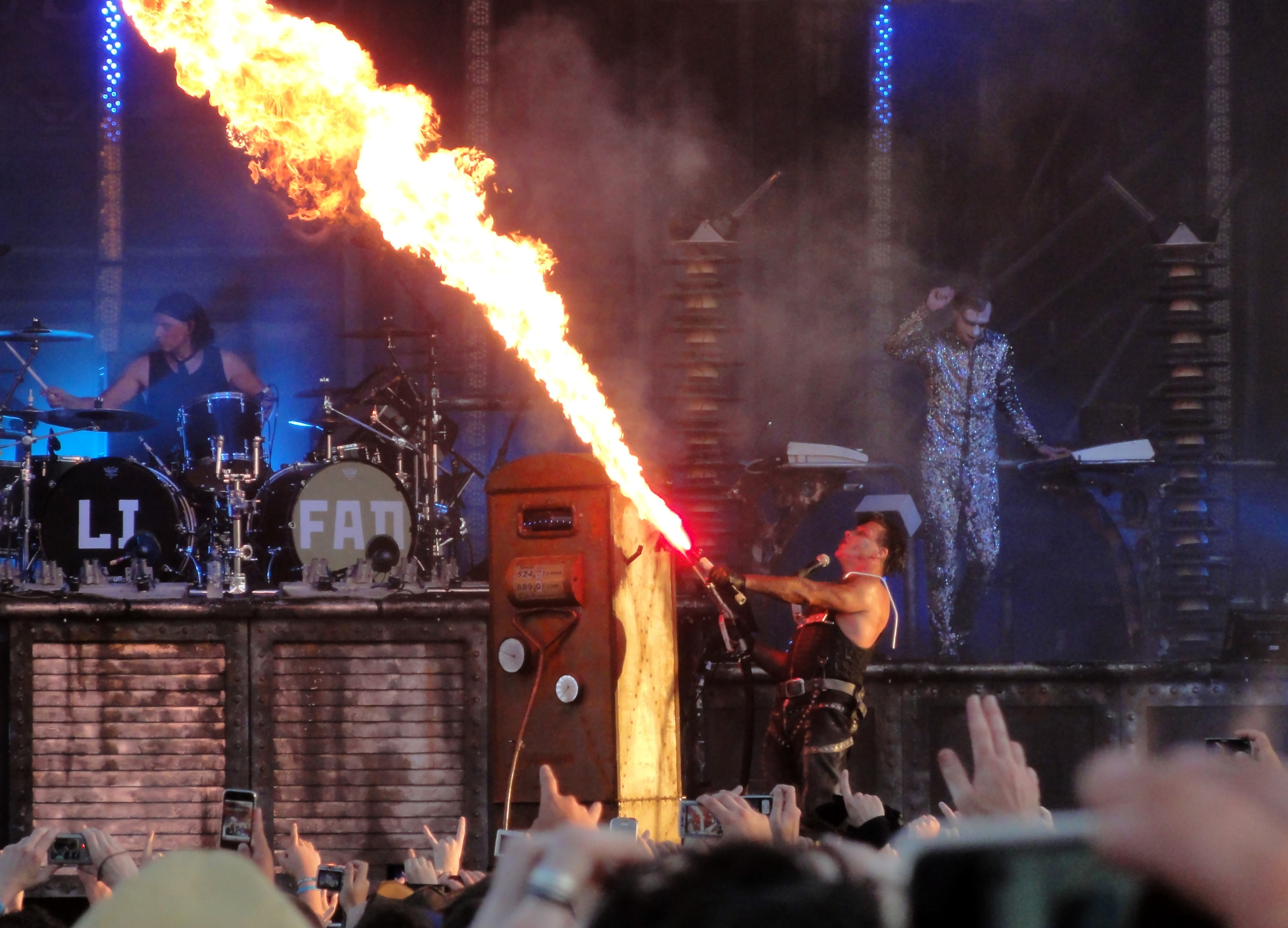 Rammstein tour "Liebe ist für alle da".